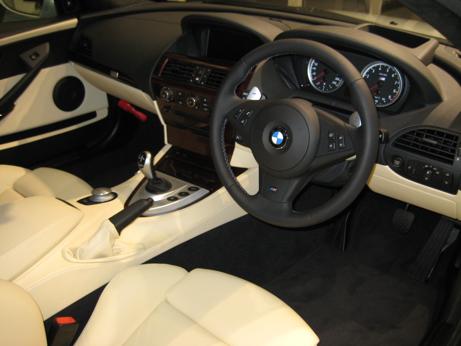 BMW M6 Coupé Interior in BMW M Paddock